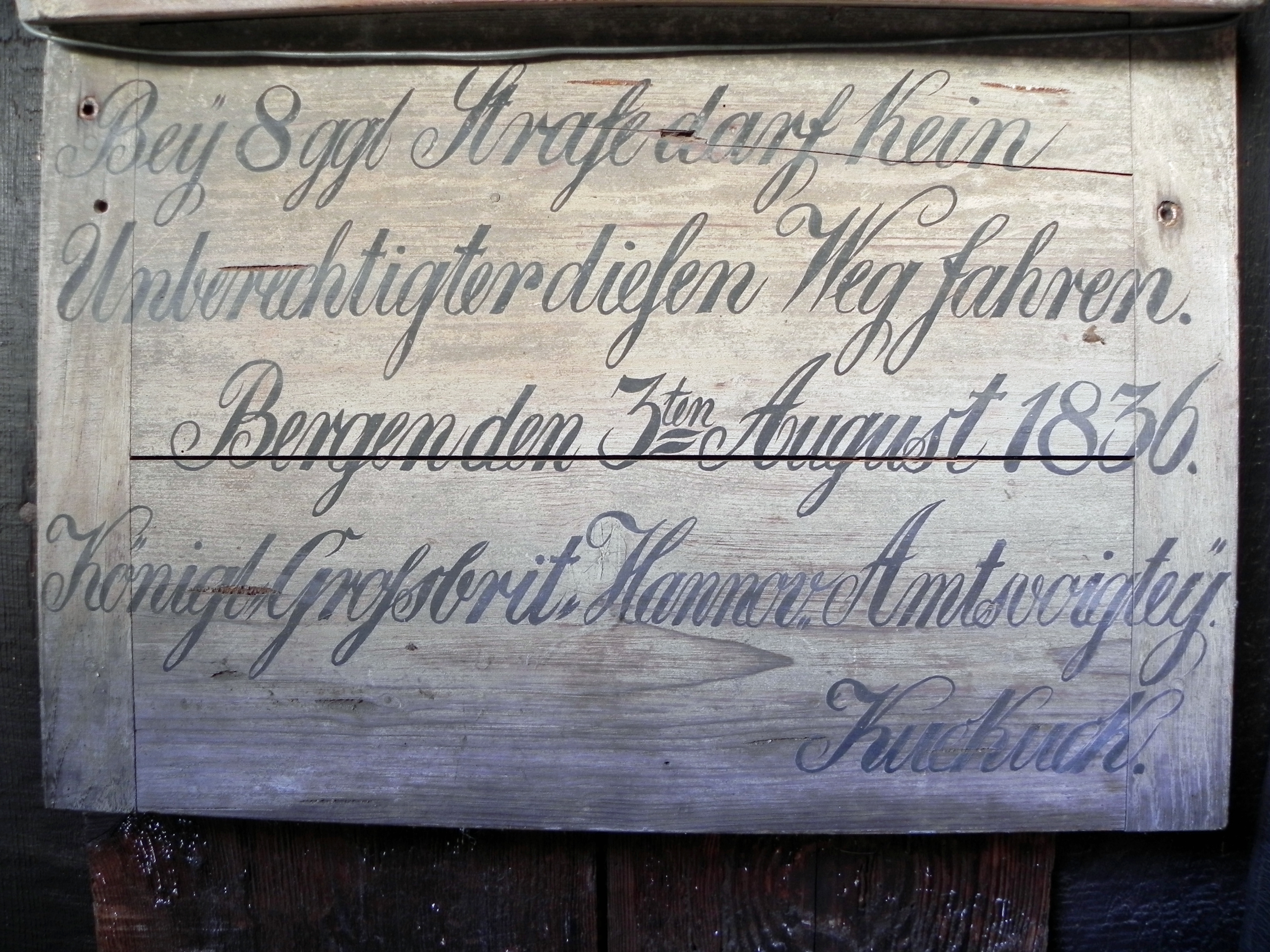 1836 "no entry" road sign by the Royal Great British and Hanoverian District Office. Located in Bergen, Lower Saxony. Now in the Römstedthaus Museum, Bergen.